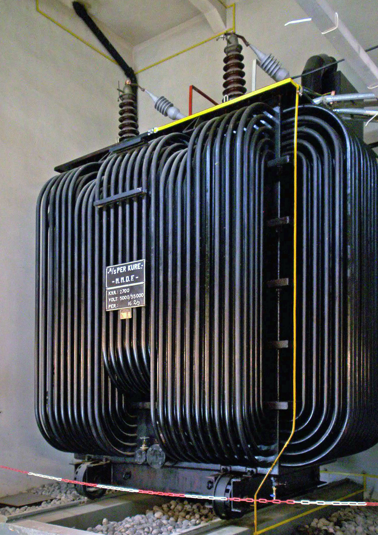 One of two transformers in Hakavik hydropower plant. This unit is a single phase, 2.7 MVA, 5 kV/55 kV, 16 2/3 Hz